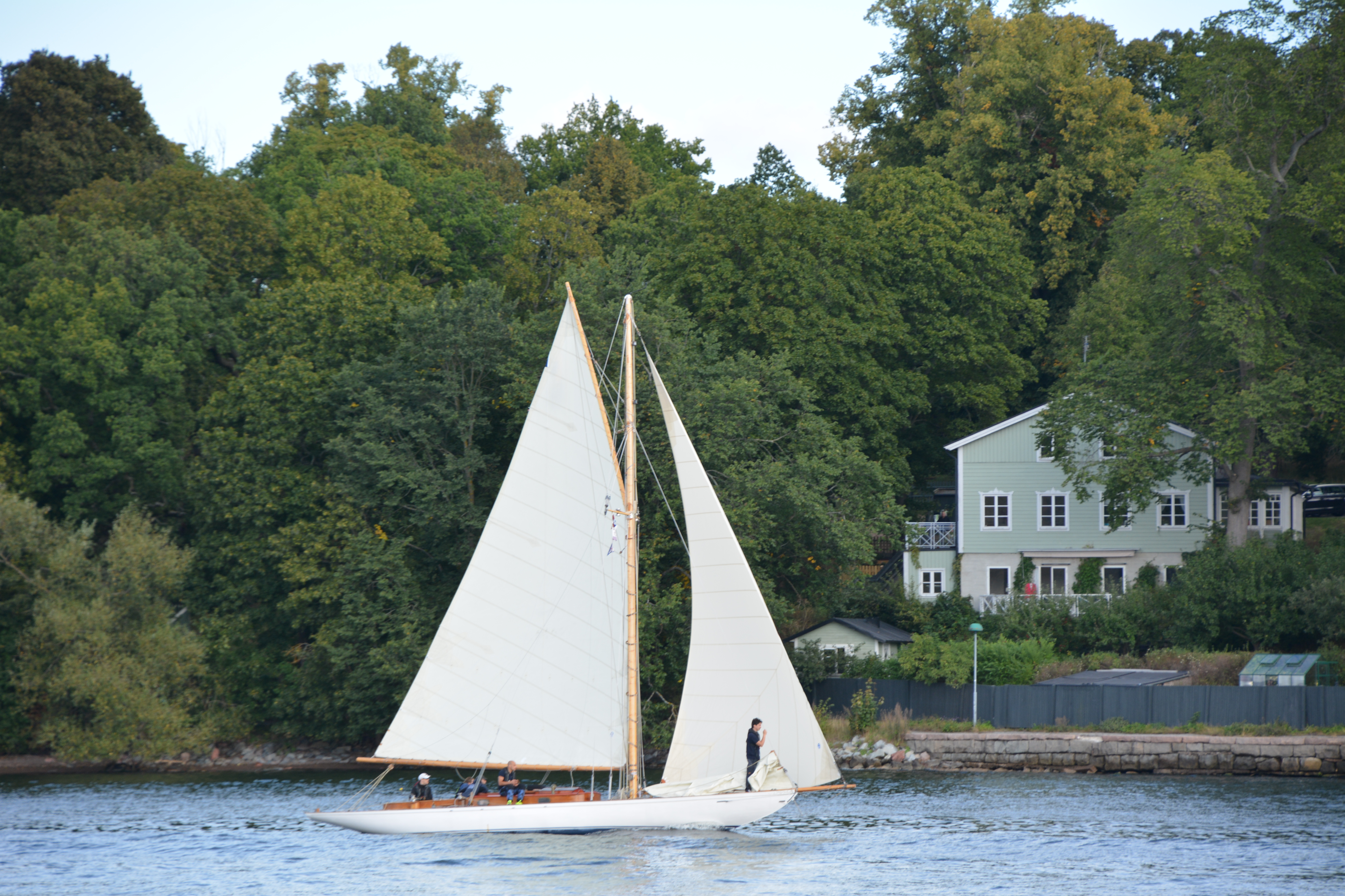 Gaffelriggad fritidssegelbåt utanför Djurgården i Stockholm